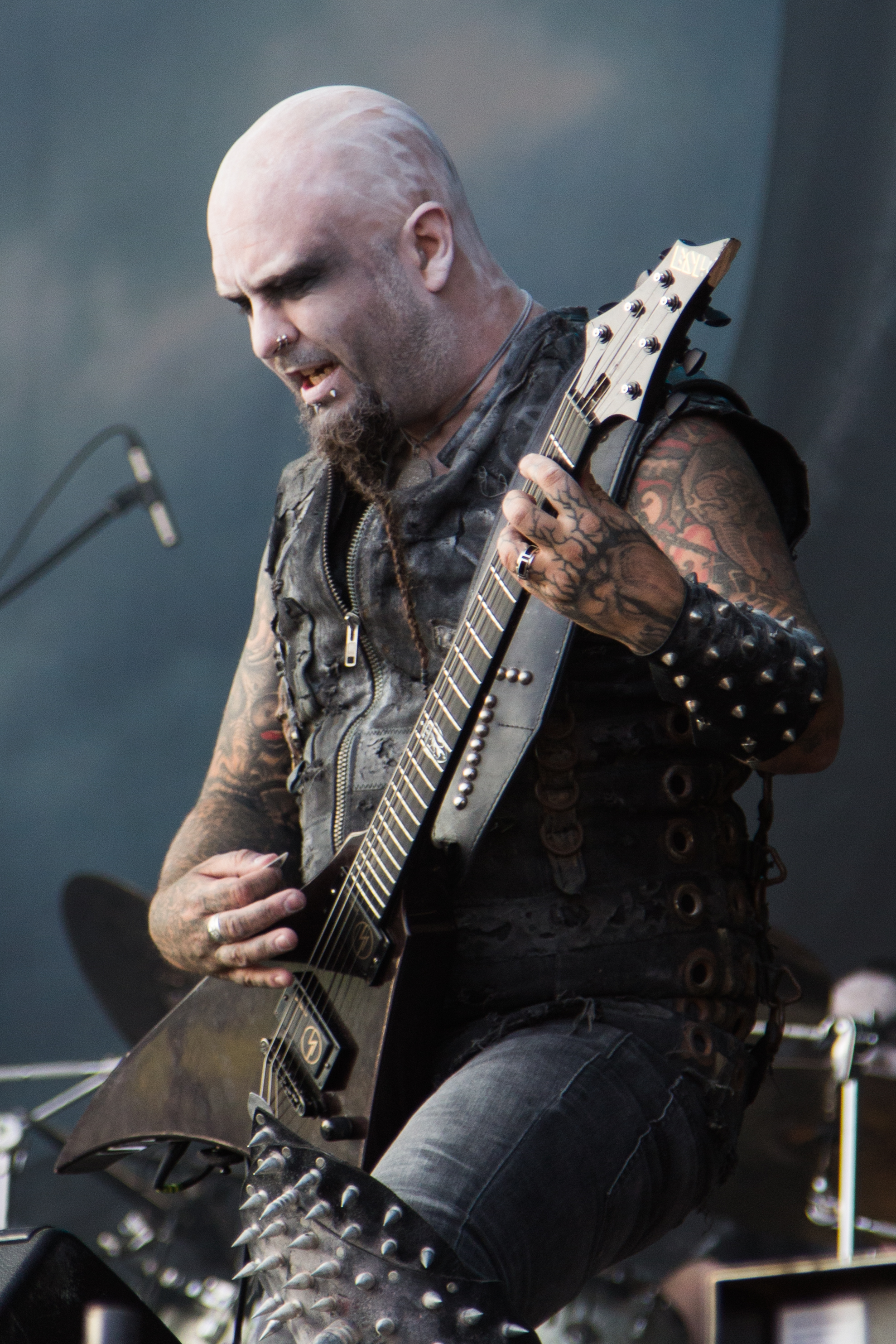 Sven Atle "Silenoz" Kopperud from Dimmu Borgir at the See-Rock Festival 2014